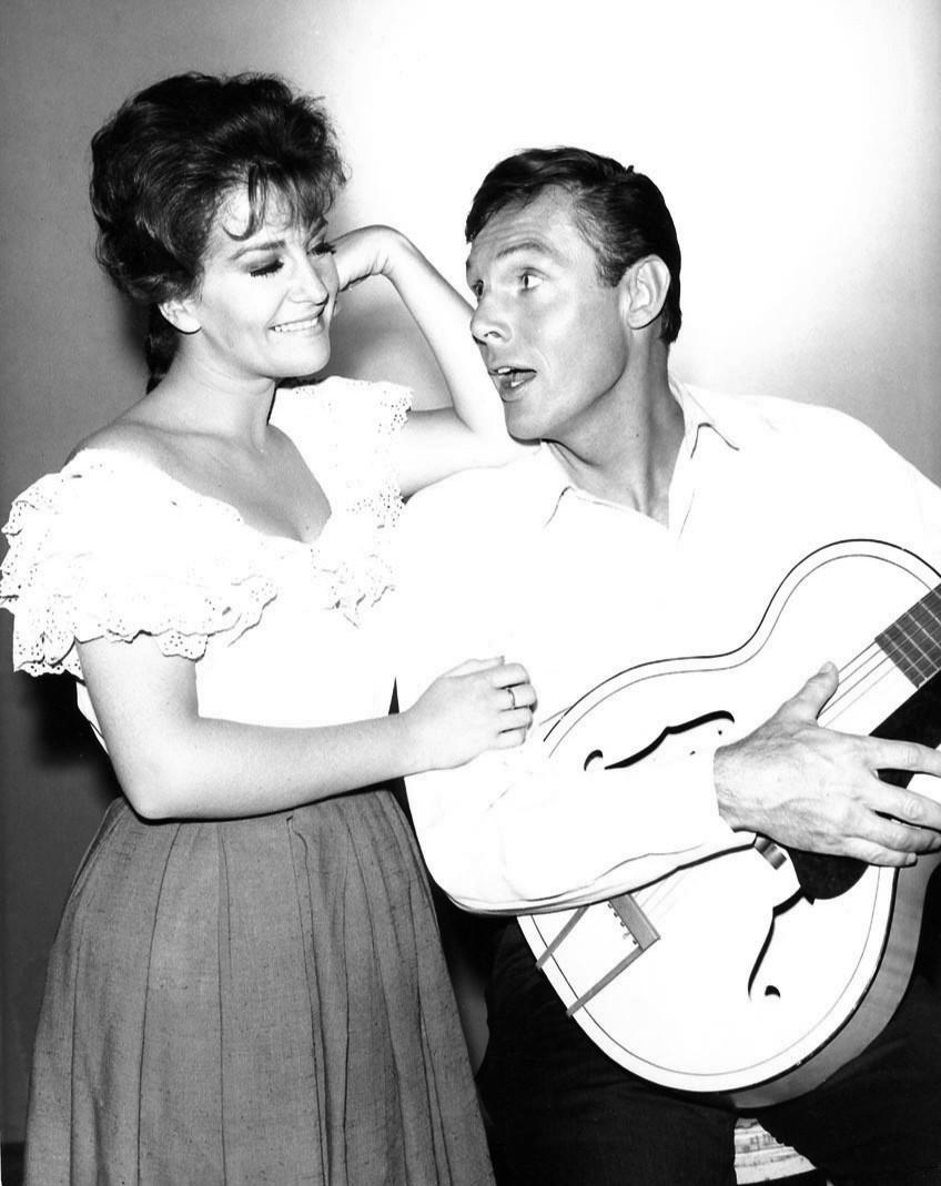 Photo of Adam West as Steve Nelson and Anita Sands in a 1961 scene from the television show Robert Taylor's The Detectives.